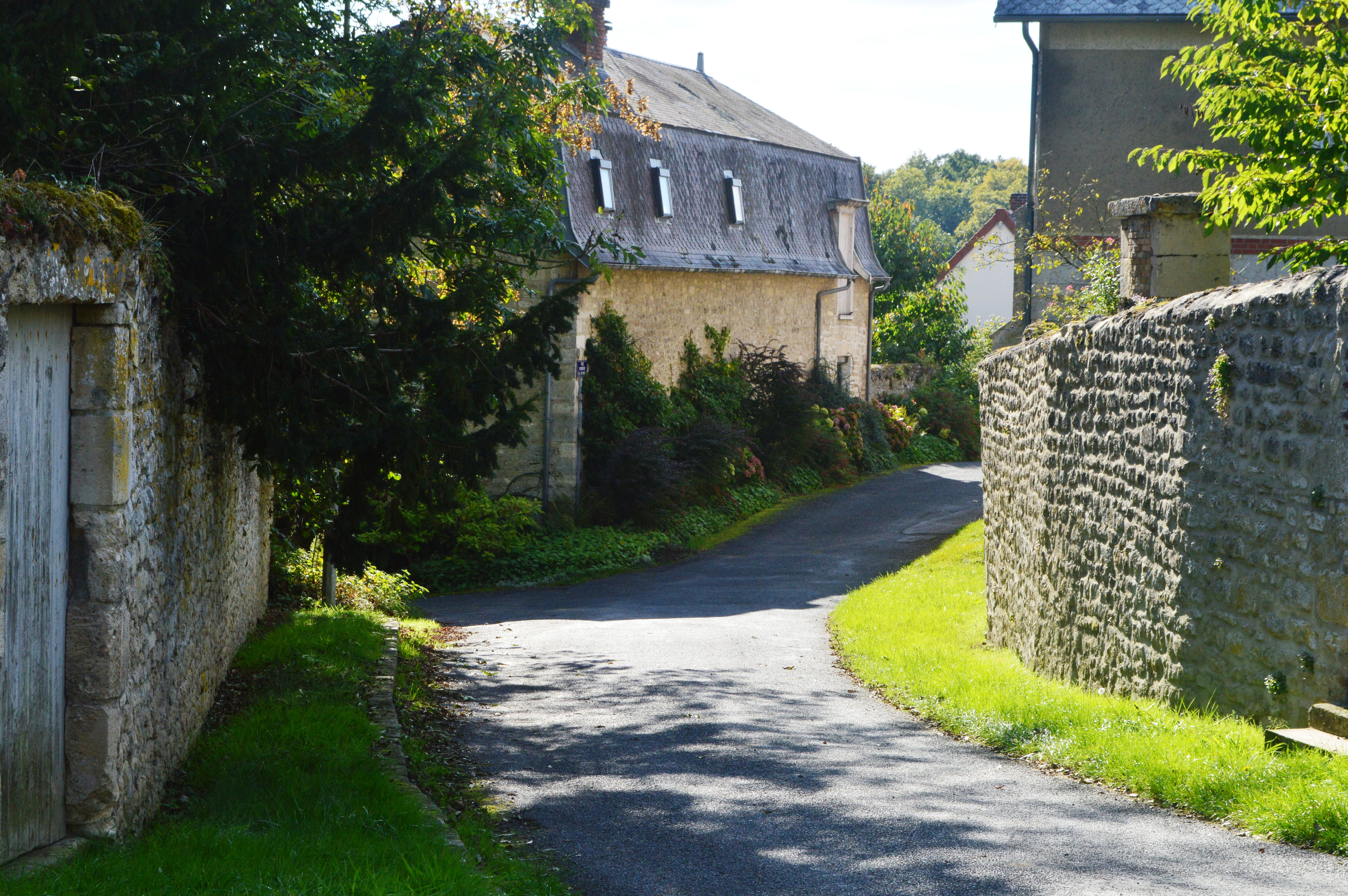 A street in Arrancy